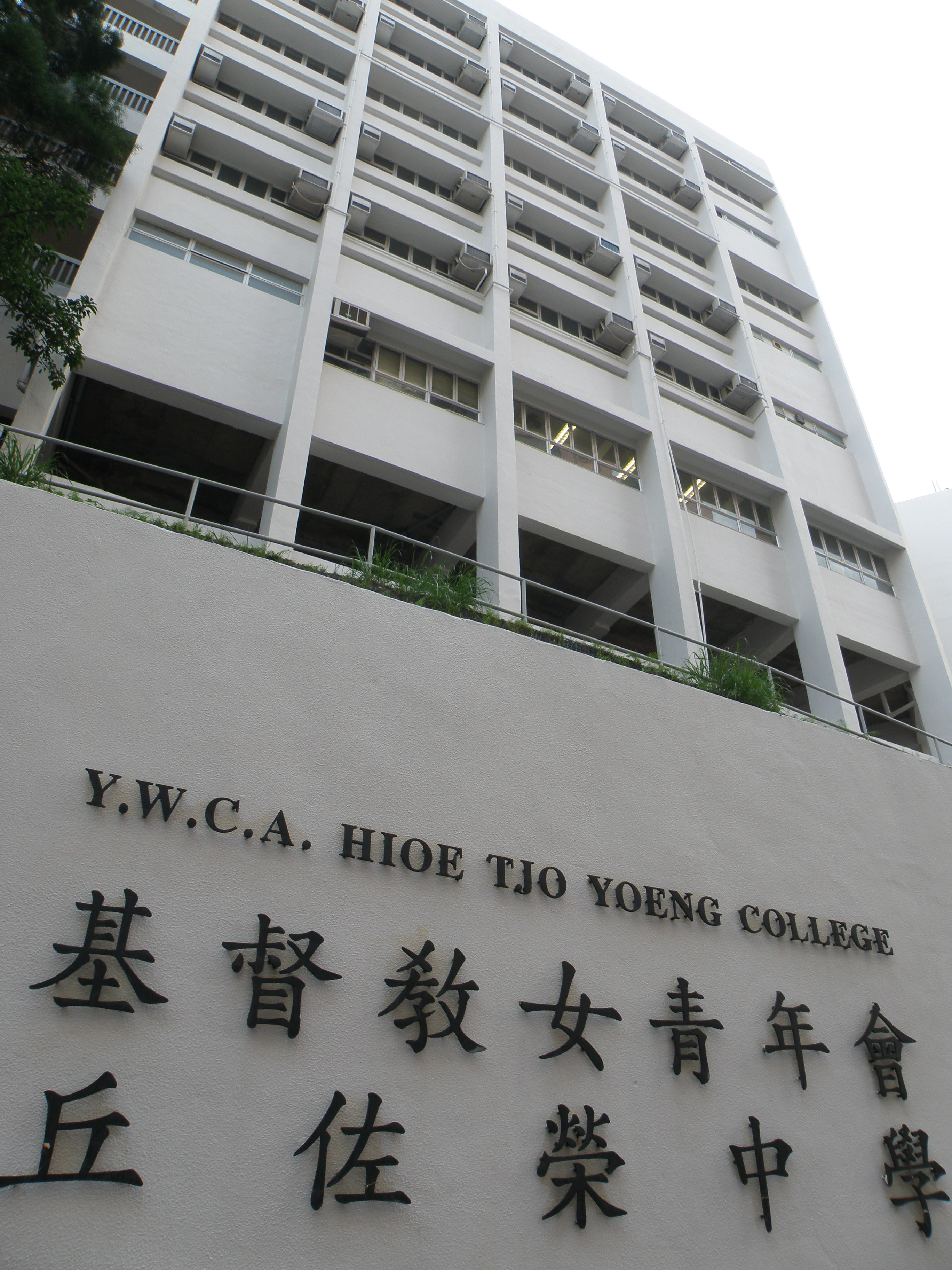 The Y.W.C.A Hioe Tjo Yoeng College in Ho Man Tin, Hong Kong.